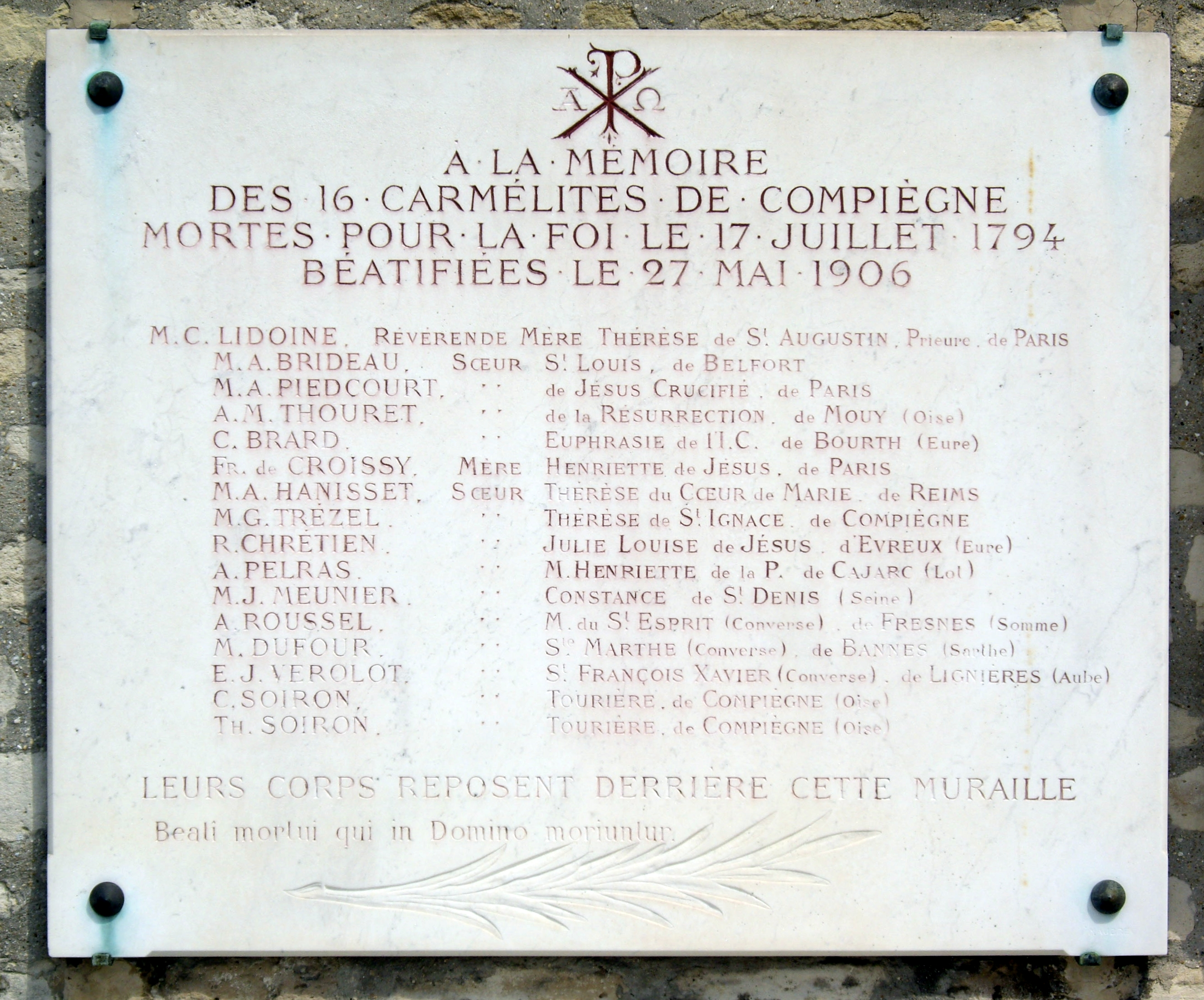 Plaque at the Picpus Cemetery in Paris in memory of the 16 Martyrs of Compiègne, guillotined on 17 July 1794 and beatified by Pope Pius X on 27 May 1906.